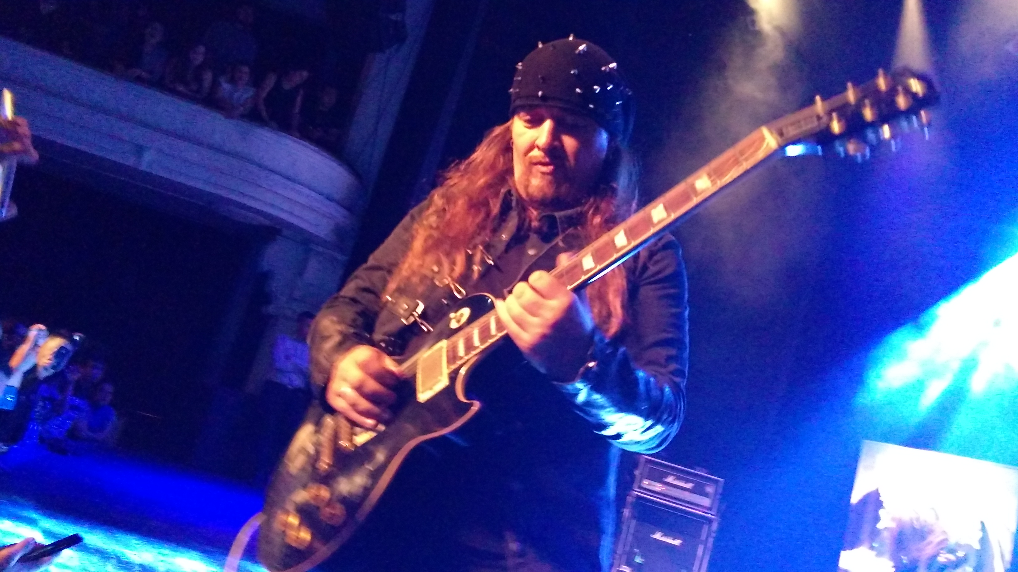 Concert of the asturian-origin band Avalanch